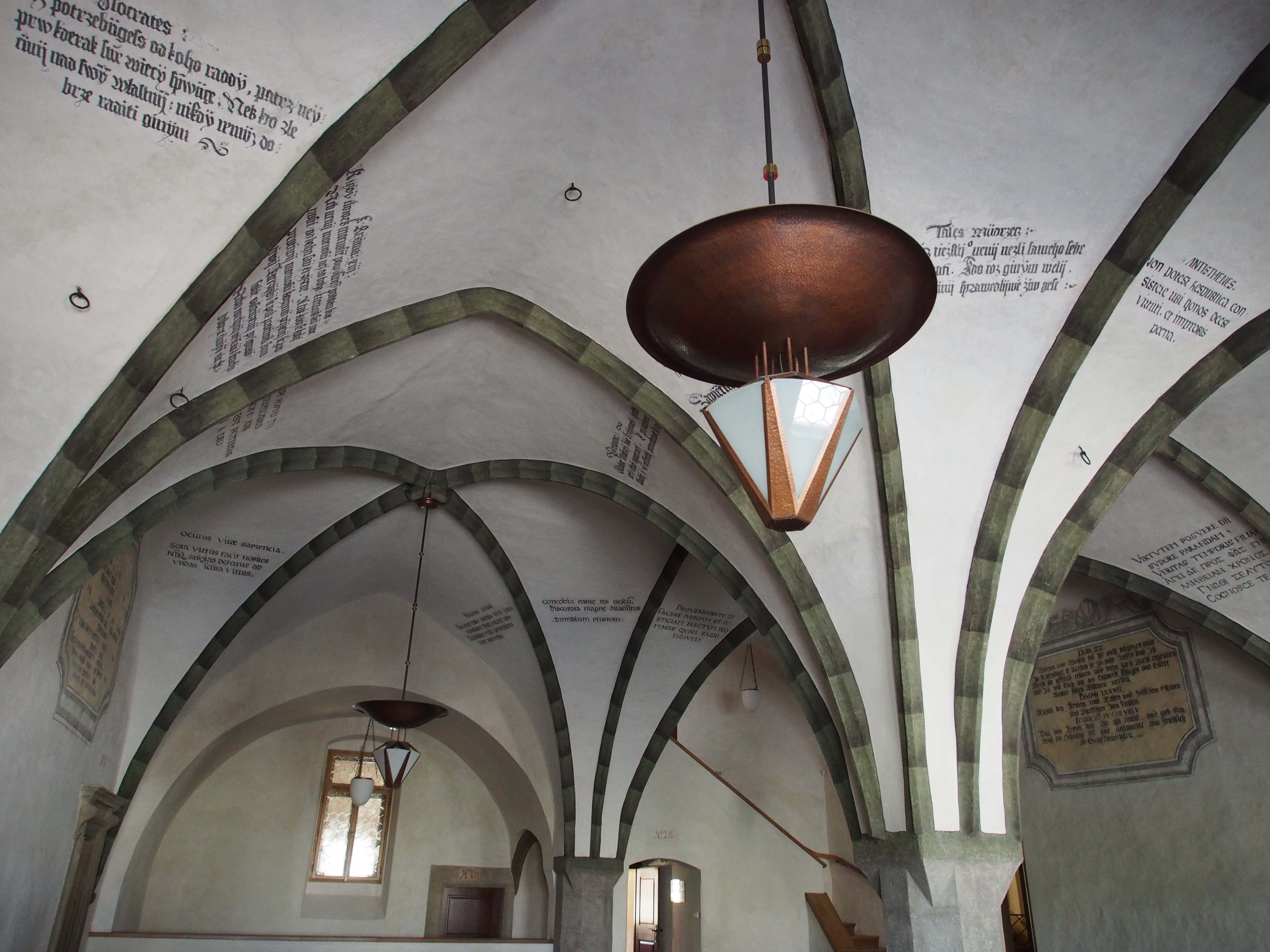 Great gothic hall